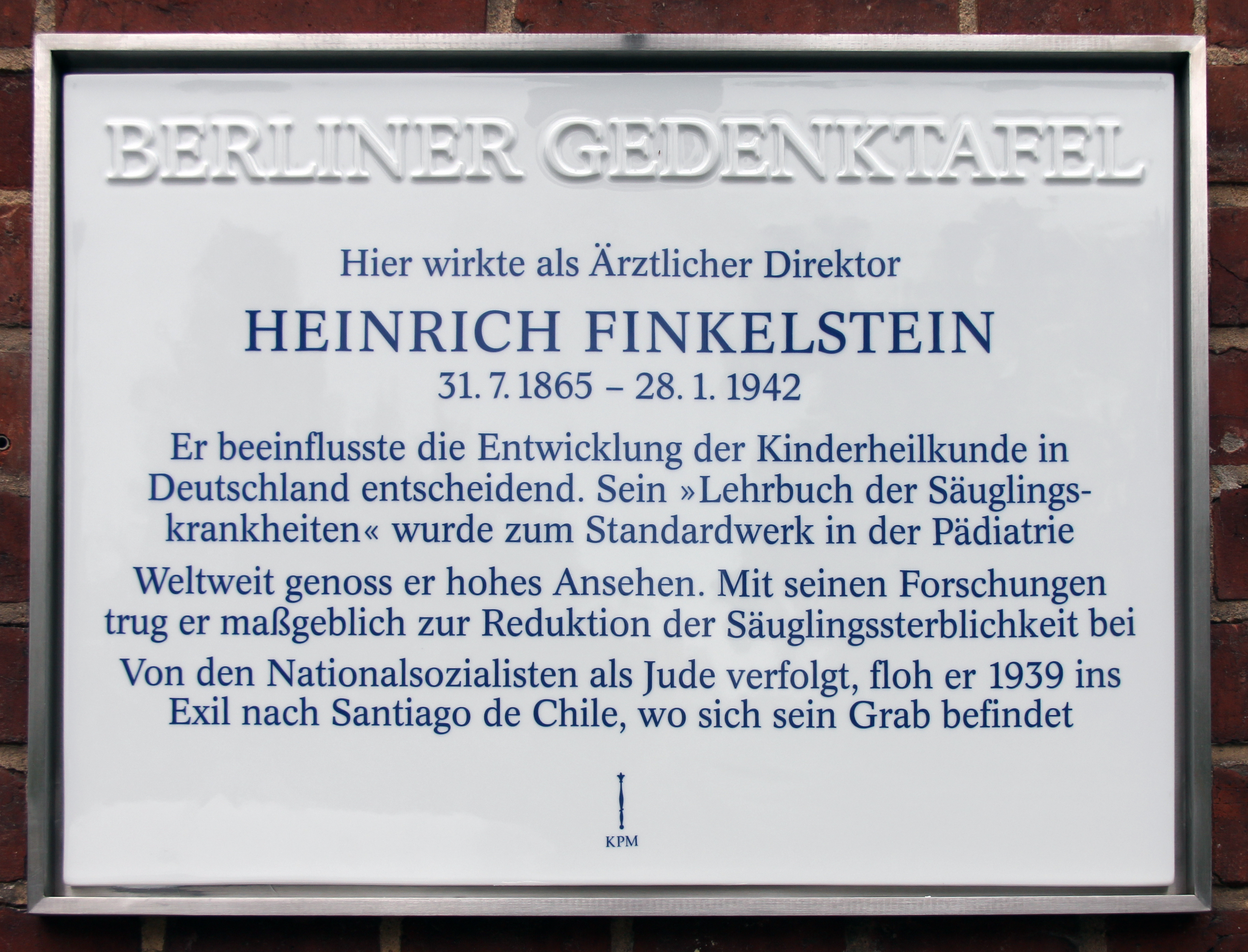 Berlin memorial plaque, Heinrich Finkelstein, Reinickendorfer Straße 61, Berlin-Wedding, Germany